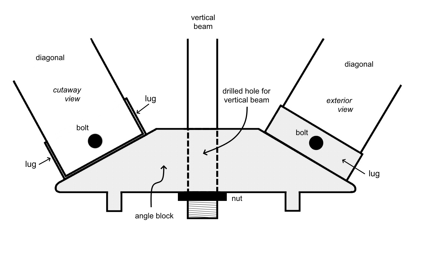 An angle block design for a Howe truss bridge. The angle block is made of solid cast iron. A hole is drilled through the top to provide access for the vertical beam. The lower portion of the beam is threaded so that a nut (sometimes a nut and iron plate) can be screwed to the beam to hold it in place. Lugs (seats) accept the diagonals and diagonal counter-braces. These are held in place partially by a hole drilled in the lug and the diagonal and diagonal counter-braces, though which a bolt is threaded and screwed into place. The upper and lower screws on the vertical beams are then tightened, putting the diagonals and diagonal counter-braces into compression and holding them in place against the lugs and angle block.